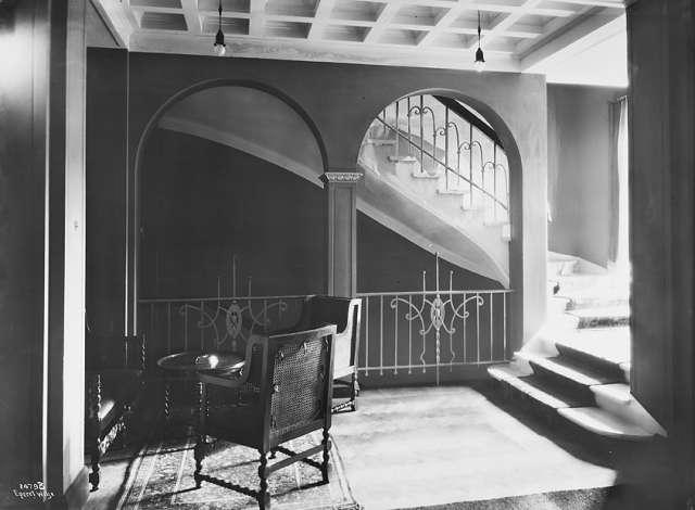 Lobby at Oppdal Tourist Hotel, Norway